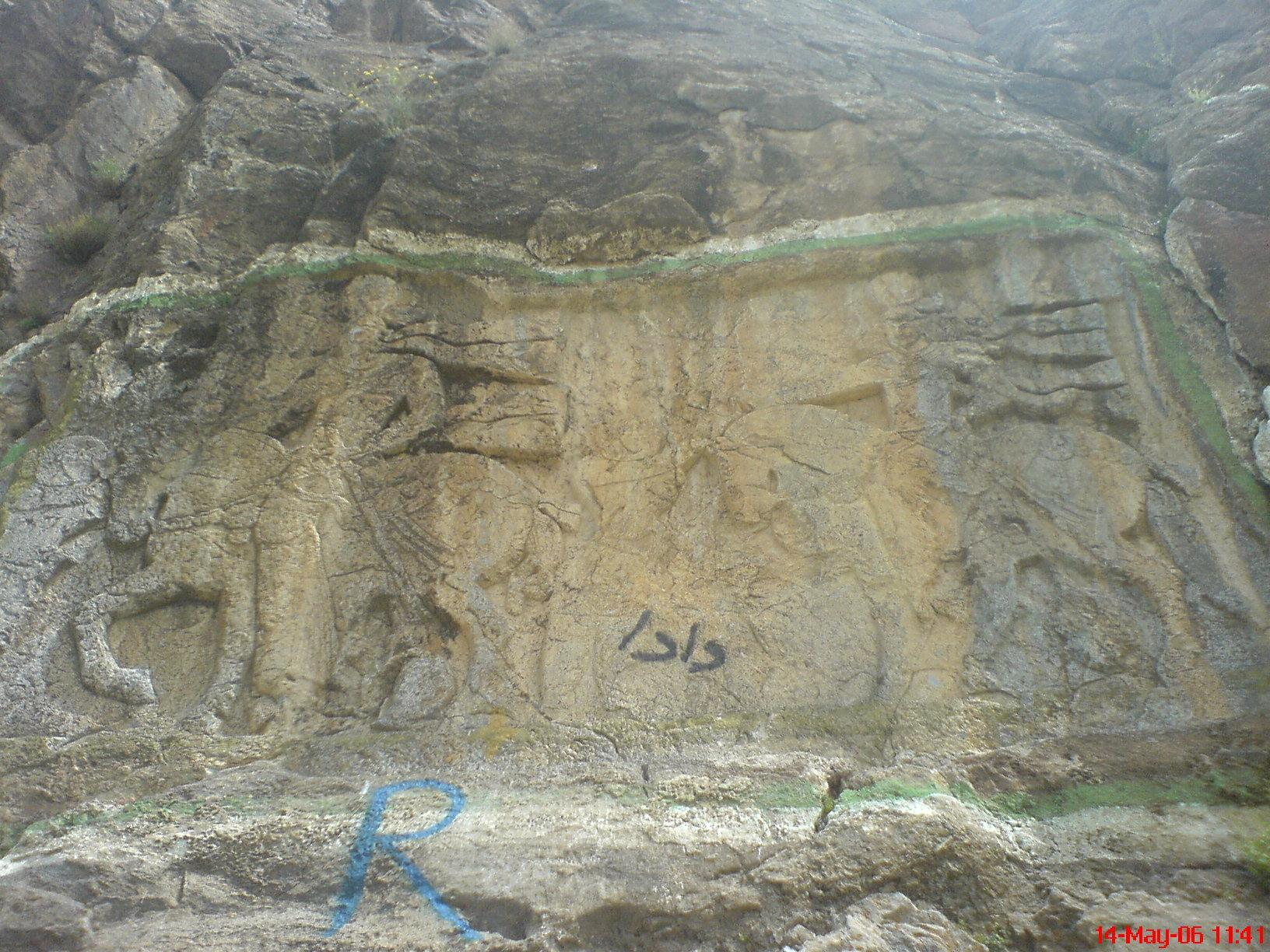 Khan Takhti rock relief (May 2006)- From left to right: Armenian nobleman, Ardashir I, Armenian nobleman, Shapur I